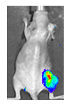 A 'nude' (hairless) mouse bearing a tumour in the right hind leg has been treated intra-tumourally with vaccinia virus encoding luciferase. Viral infection of the tumour is visible by the bio-luminescence produced by luciferase. (False coloring is used to demonstrate intensity). Citation: Haddad D, Chen C-H, Carlin S, Silberhumer G, Chen NG, et al. (2012) Imaging Characteristics, Tissue Distribution, and Spread of a Novel Oncolytic Vaccinia Virus Carrying the Human Sodium Iodide Symporter. PLoS ONE 7(8): e41647.